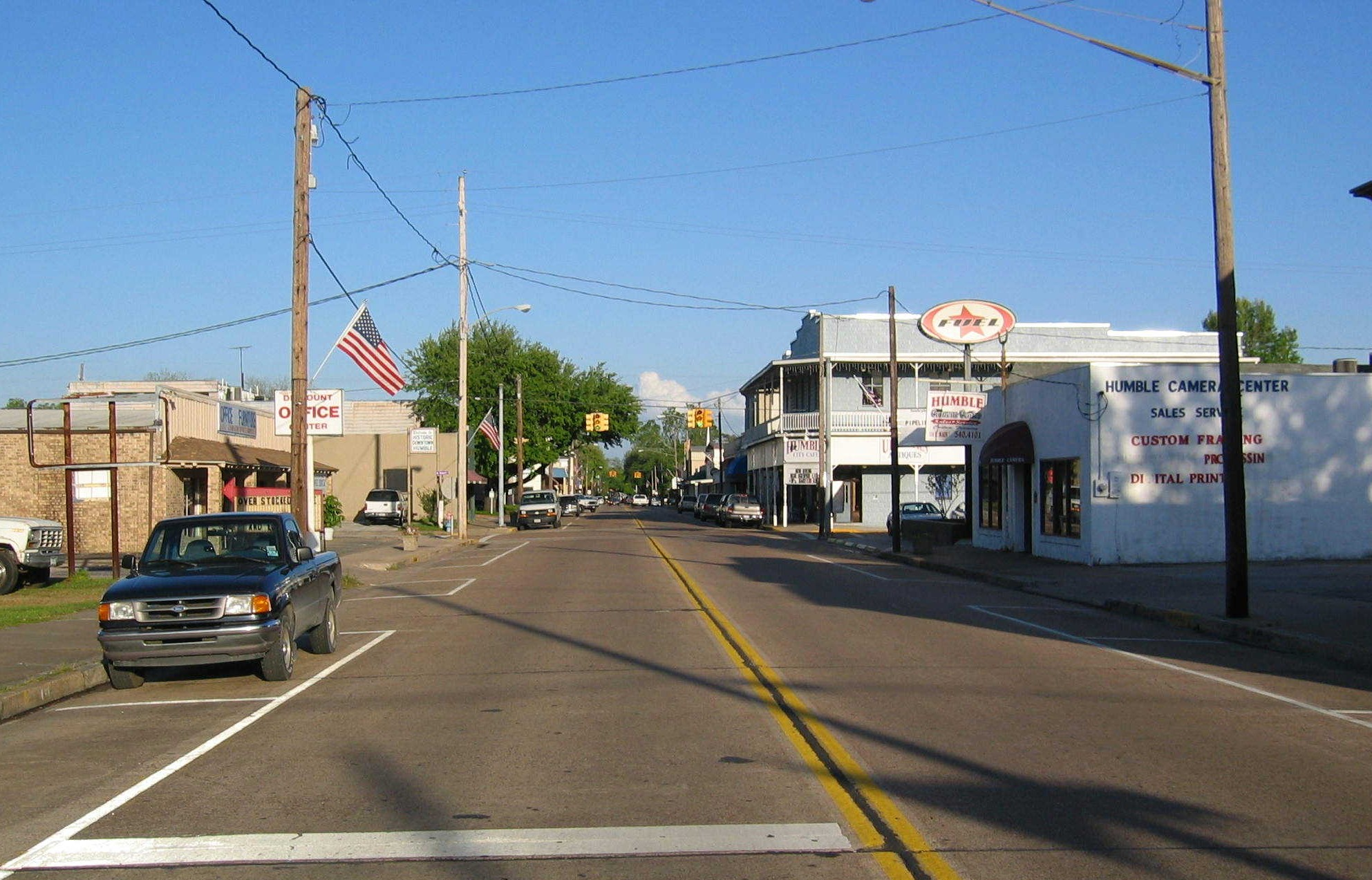 Humble with the humble cafe in the distance (fuel on your right is a teenage place like a student hang out night club)